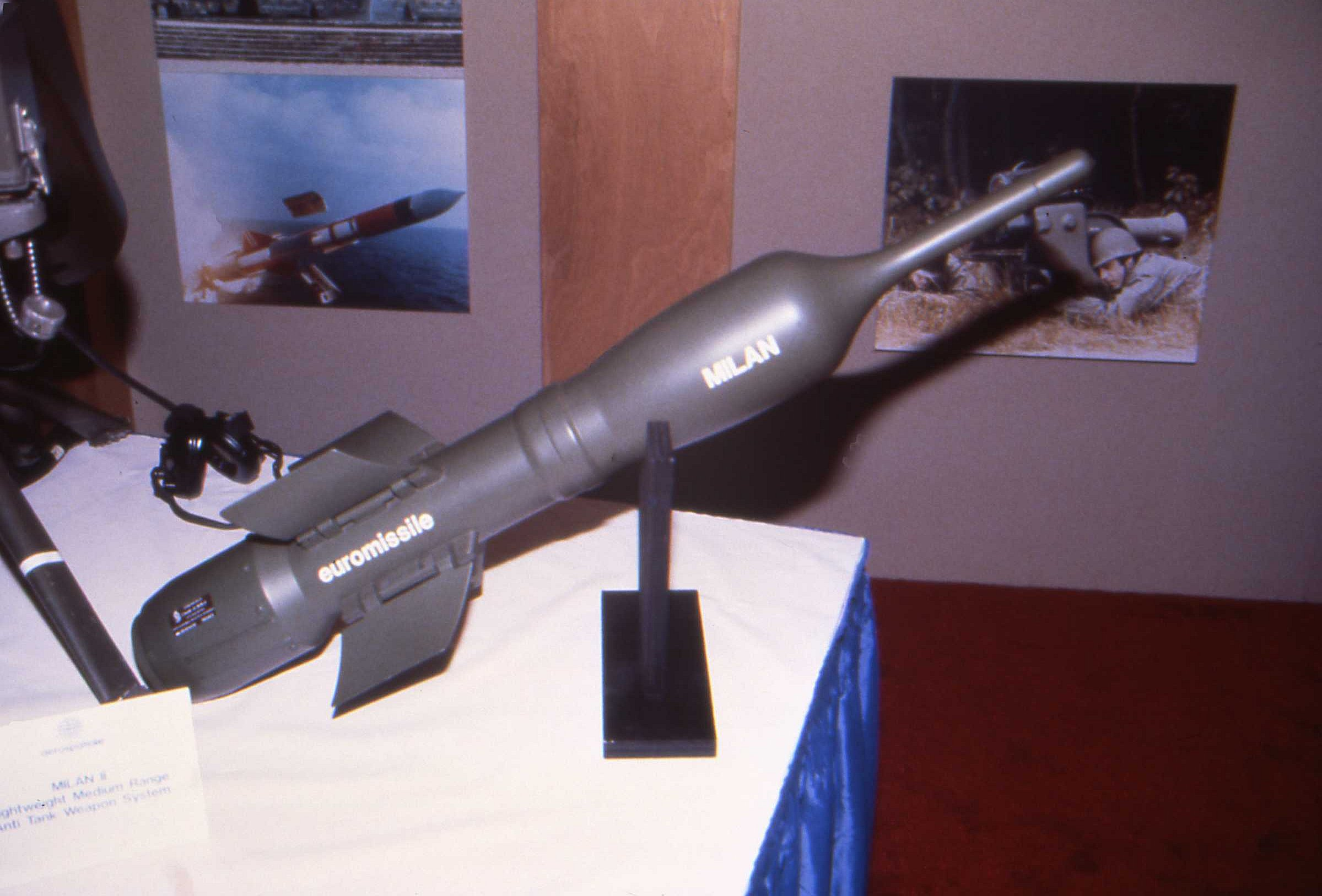 Photo of Euromissile MILAN wire guided antitank missile that I took a photo of at Association of the United States Army convention in Washington DC.